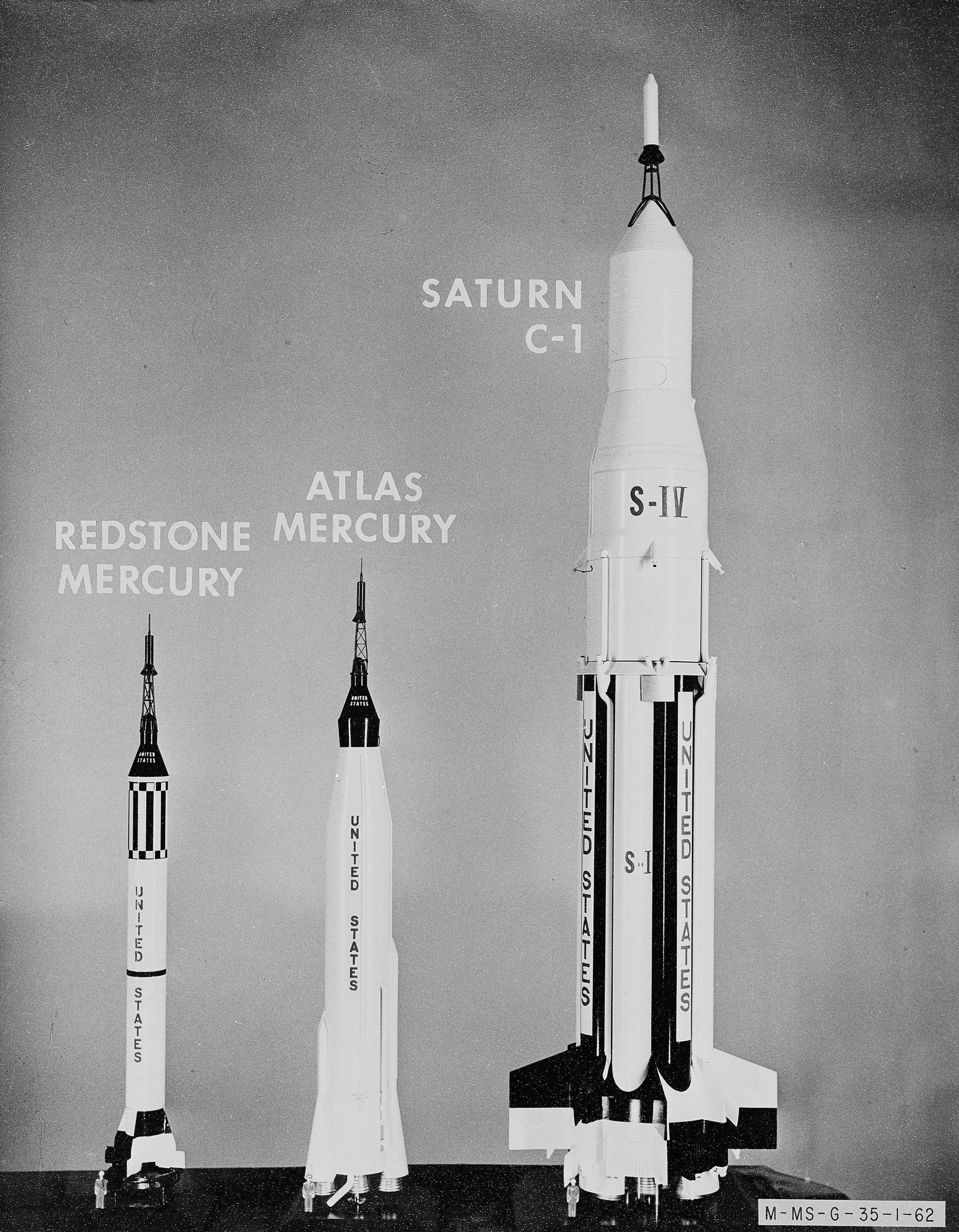 Photographed are models of early rocketry: The Atlas Mercury, Redstone Mercury; and Saturn C-1.